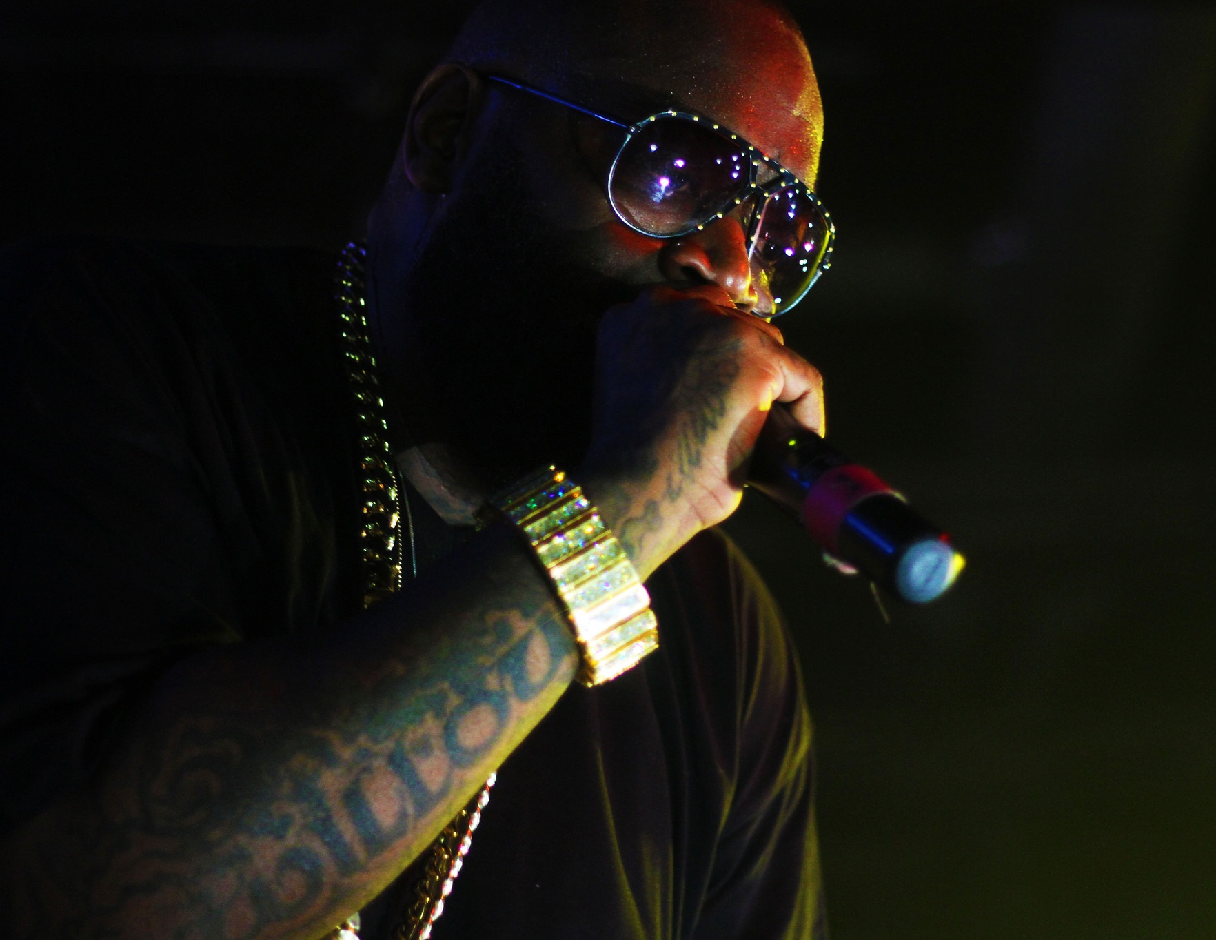 Rick Ross on June 15, 2014.